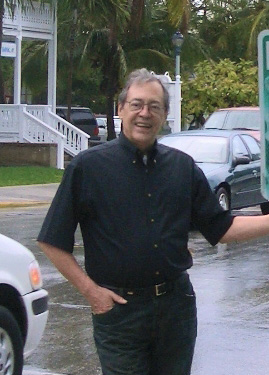 Tommy Vance, on vacation, January 2005.